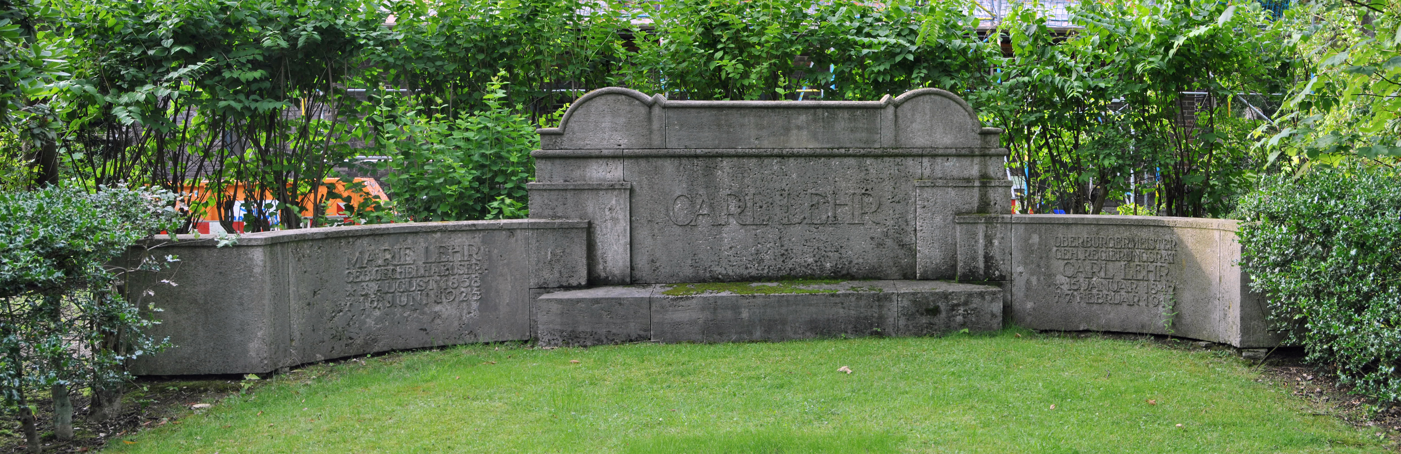 Duisburg (North Rhine-Westphalia, Germany) – borough Mitte, district Neudorf – Old Cemetery at Sternbuschweg – grave of the former major Carl Lehr